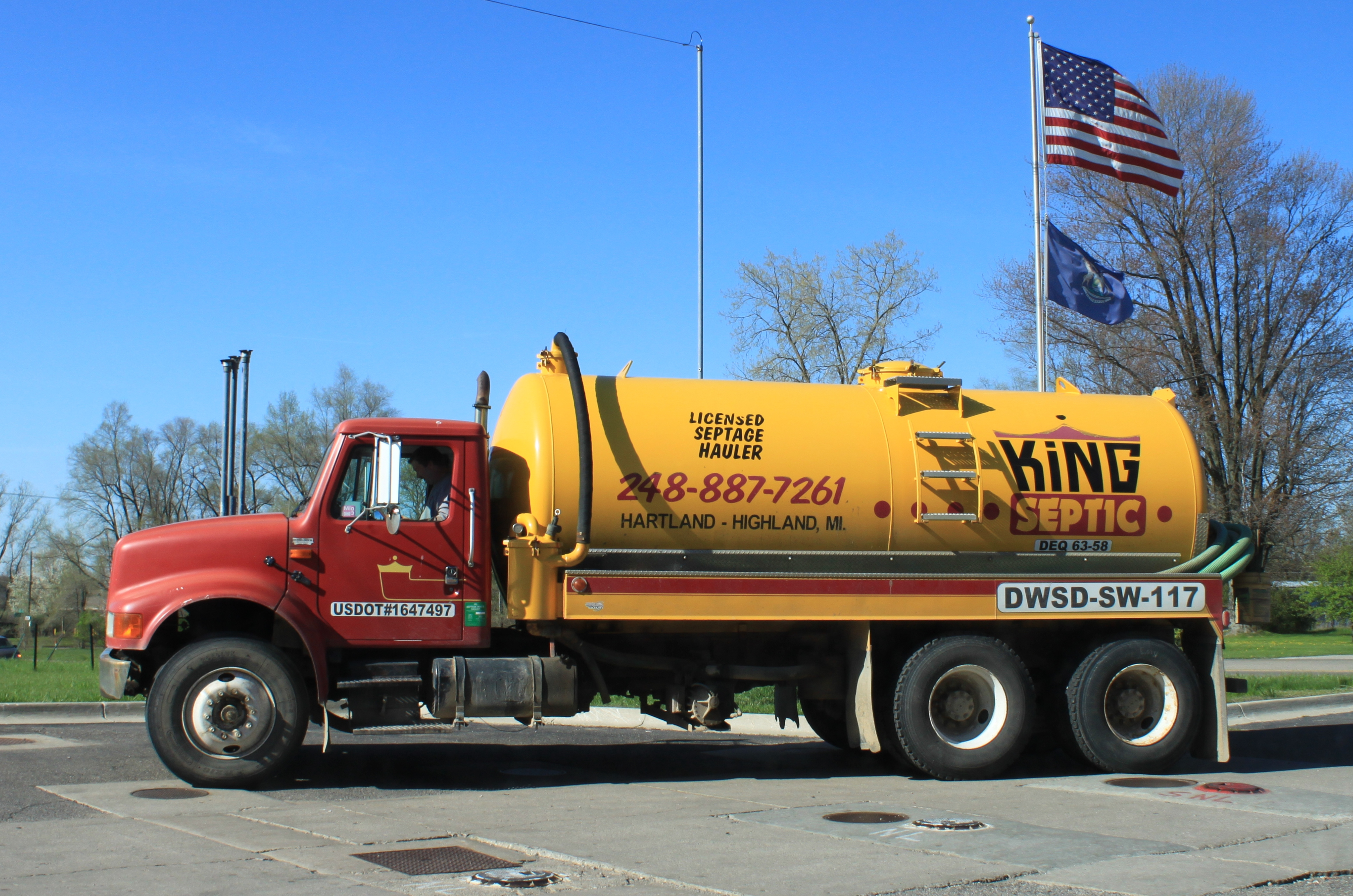 Septage pump truck, Sunoco service station, 1575 Milford Road, Highland, Michigan. A septage pump truck hauls septic waste for disposal.